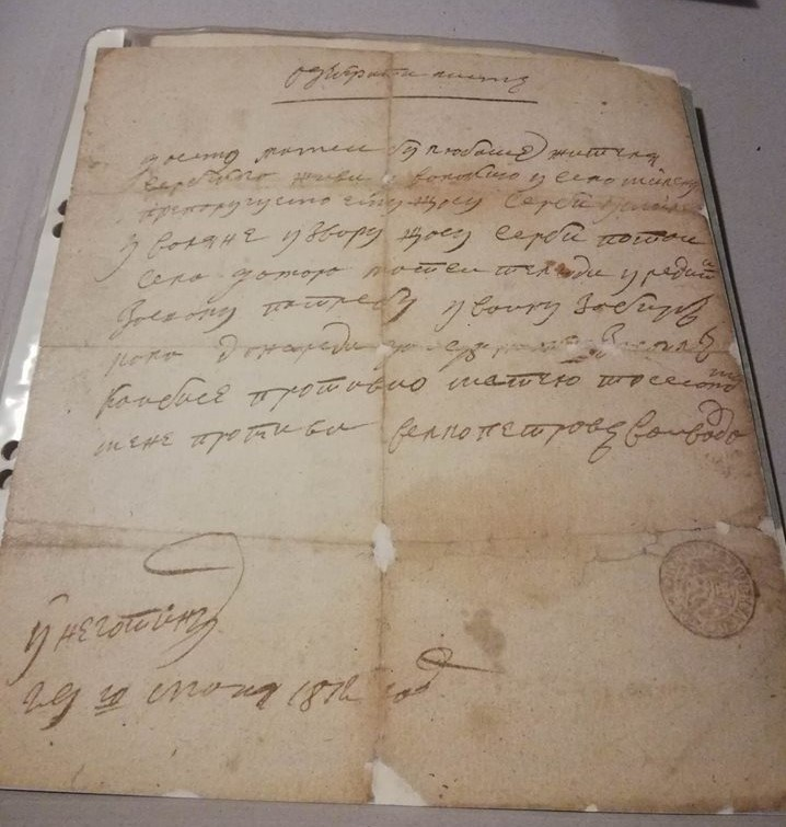 A letter by Hajduk Veljko Petrović, written in Negotin, 1812. It can be found in the Society for Culture, Art and International Cooperation Adligat in Belgrade, Serbia. Српски (ћирилица): Писмо Хајдук Вељка Петровића, написано у Неготину, 28. маја 1812. године. У питању је писмо – наредба којом се становништво наведених места обавезује да даје новчану помоћ и помоћ у намерницама, такозвани бир, устаницима. Налази се у Удружењу за културу, уметност и међународну сарадњу Адлигат у Београду.